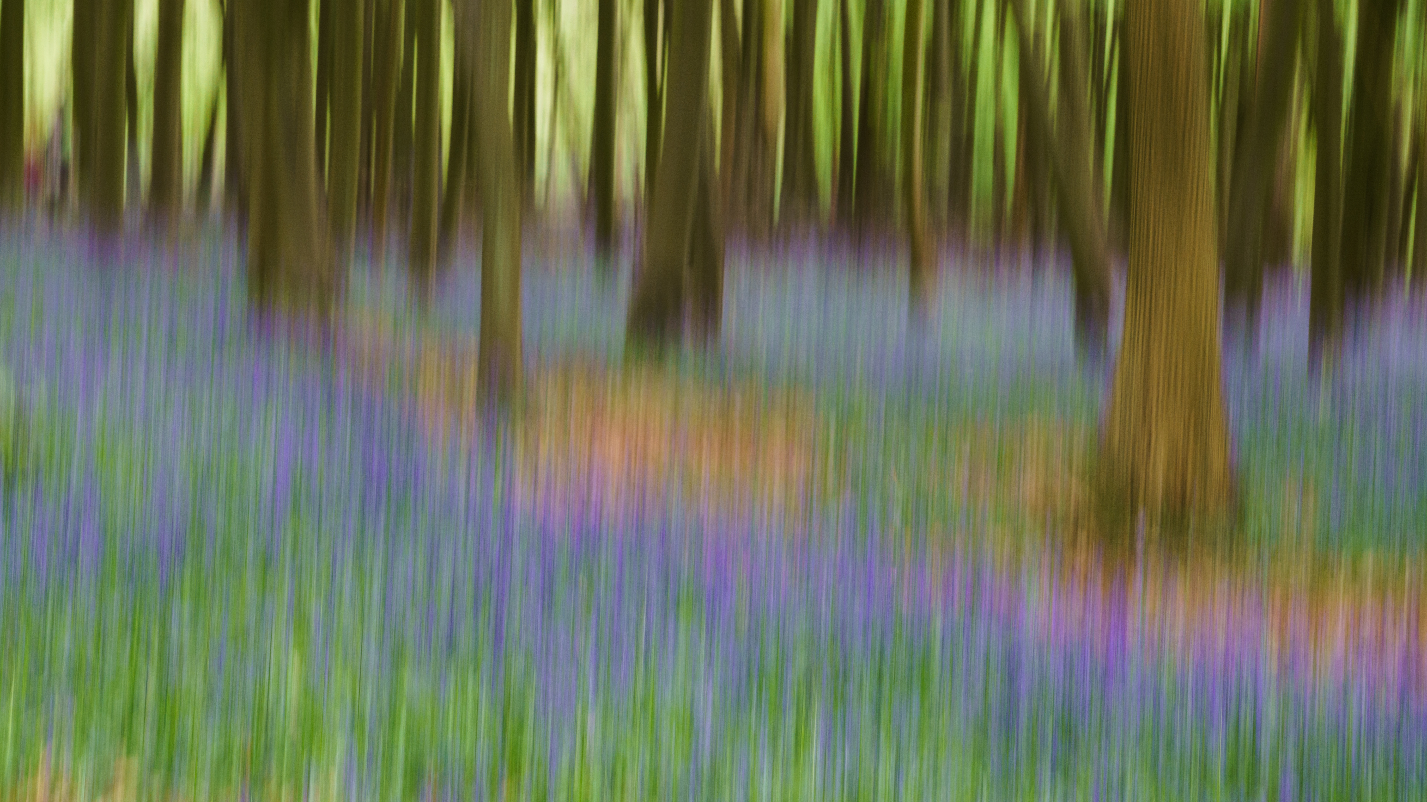 The bluebells with beech trees at Ashridge Estate. The image is the result of intentional camera movement (ICM), which creates an impressionistic effect.